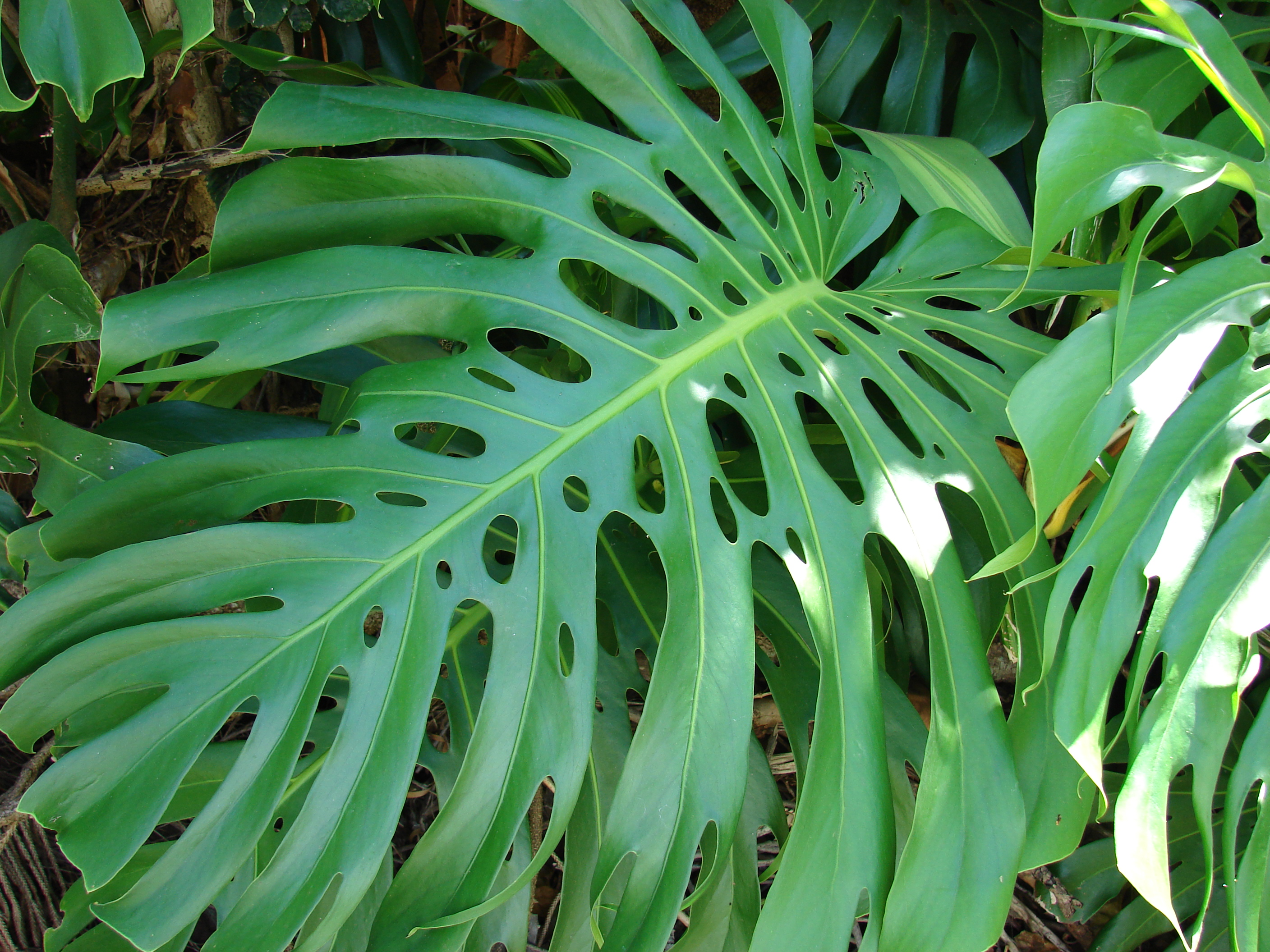 Monstera deliciosa (leaf). Location: Maui, makawao